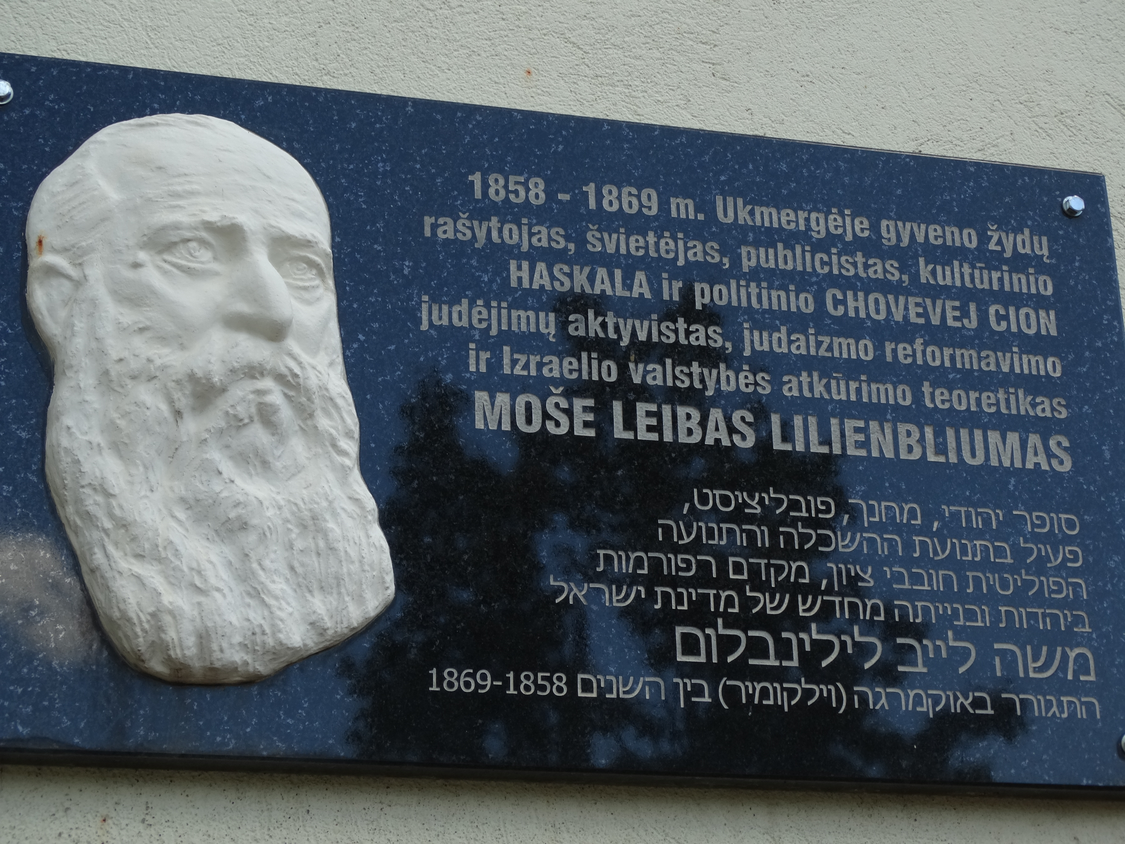 Memorial plaque, Moshe Leib Lilienblum, Ukmergė, Lithuania